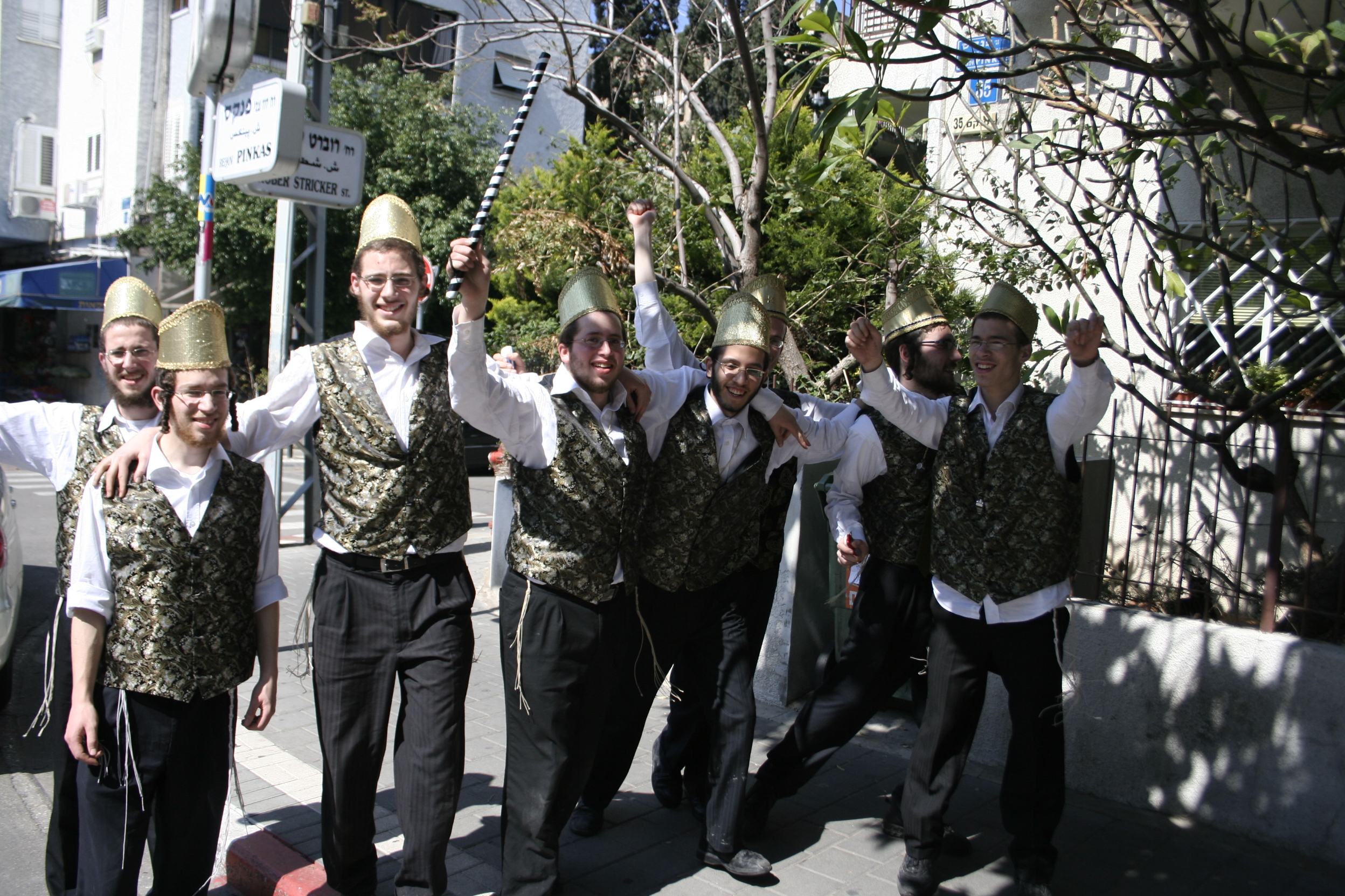 Yeshiva Boys in Tel Aviv dressed for Purim Tel Aviv-Yafo